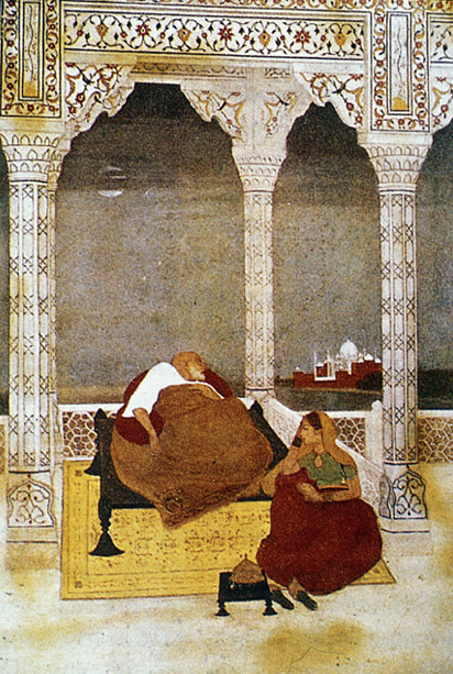 The Passing of Shah Jahan